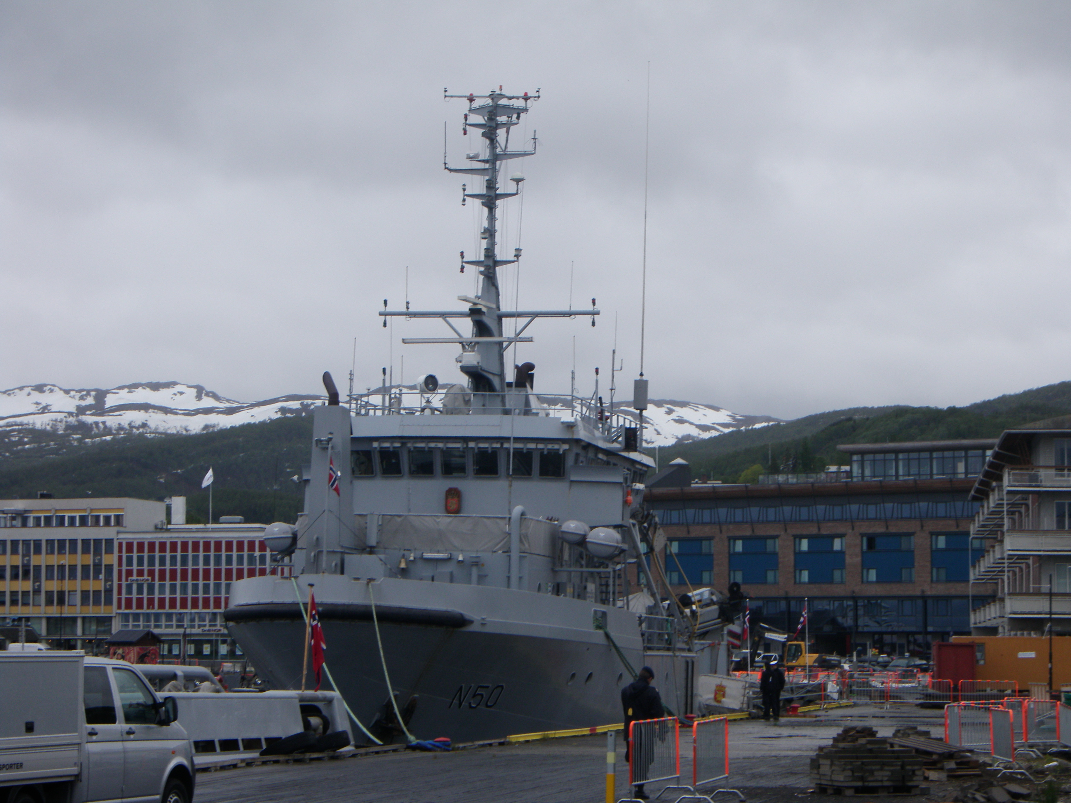 The Royal Norwegian Navy mine control vessel HNoMS Tyr in the Northern Norwegian port city of Harstad during a naval exercise.